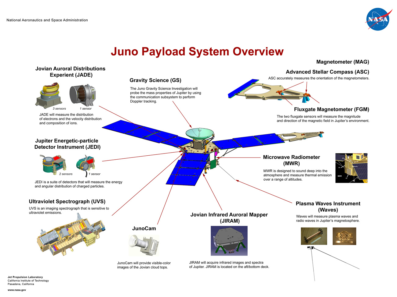 Where Junos instrumentes are attached at the spaceprobe. Notice the new solar- panel arrangement.